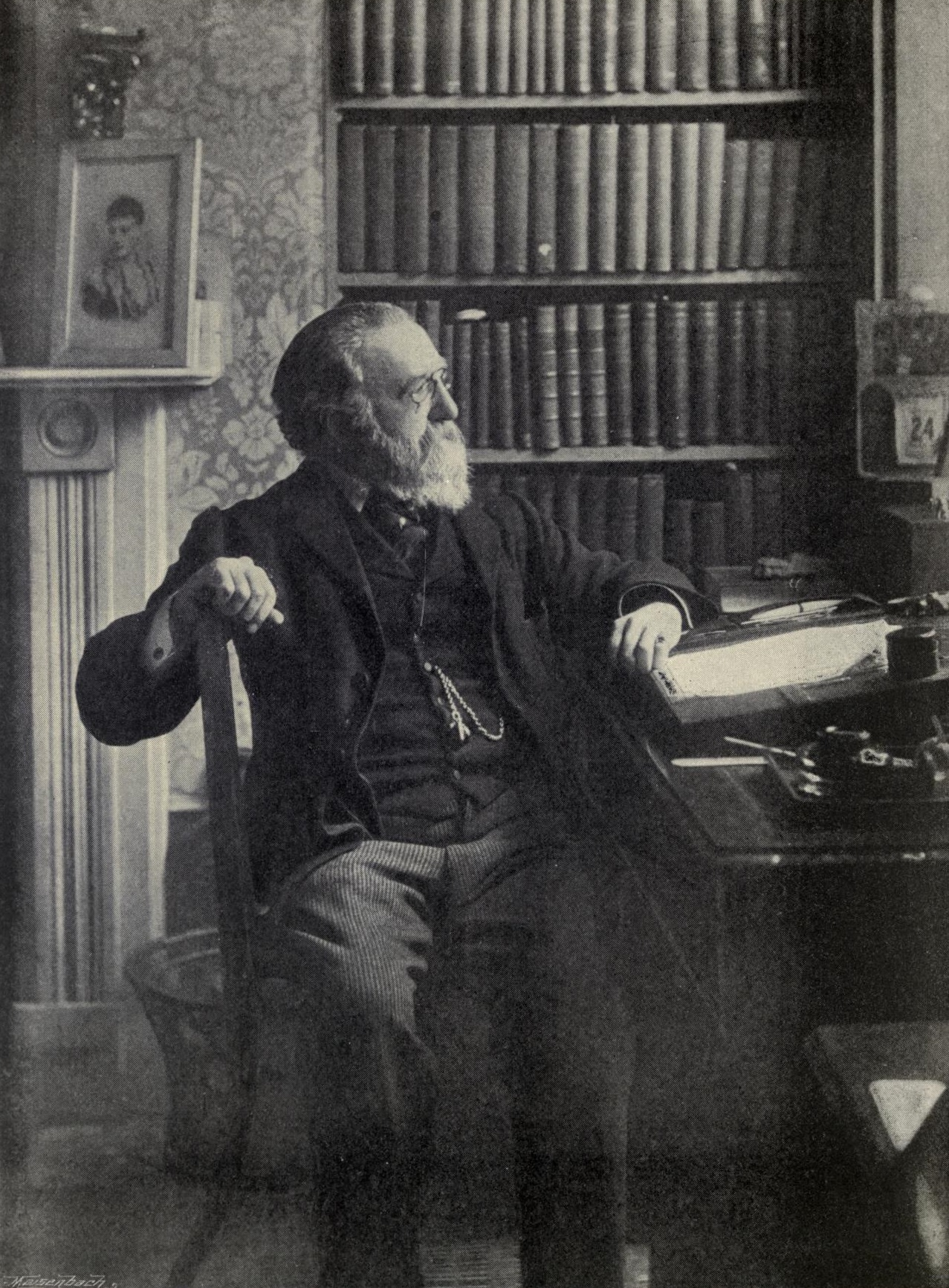 Photo of Justin McCarthy